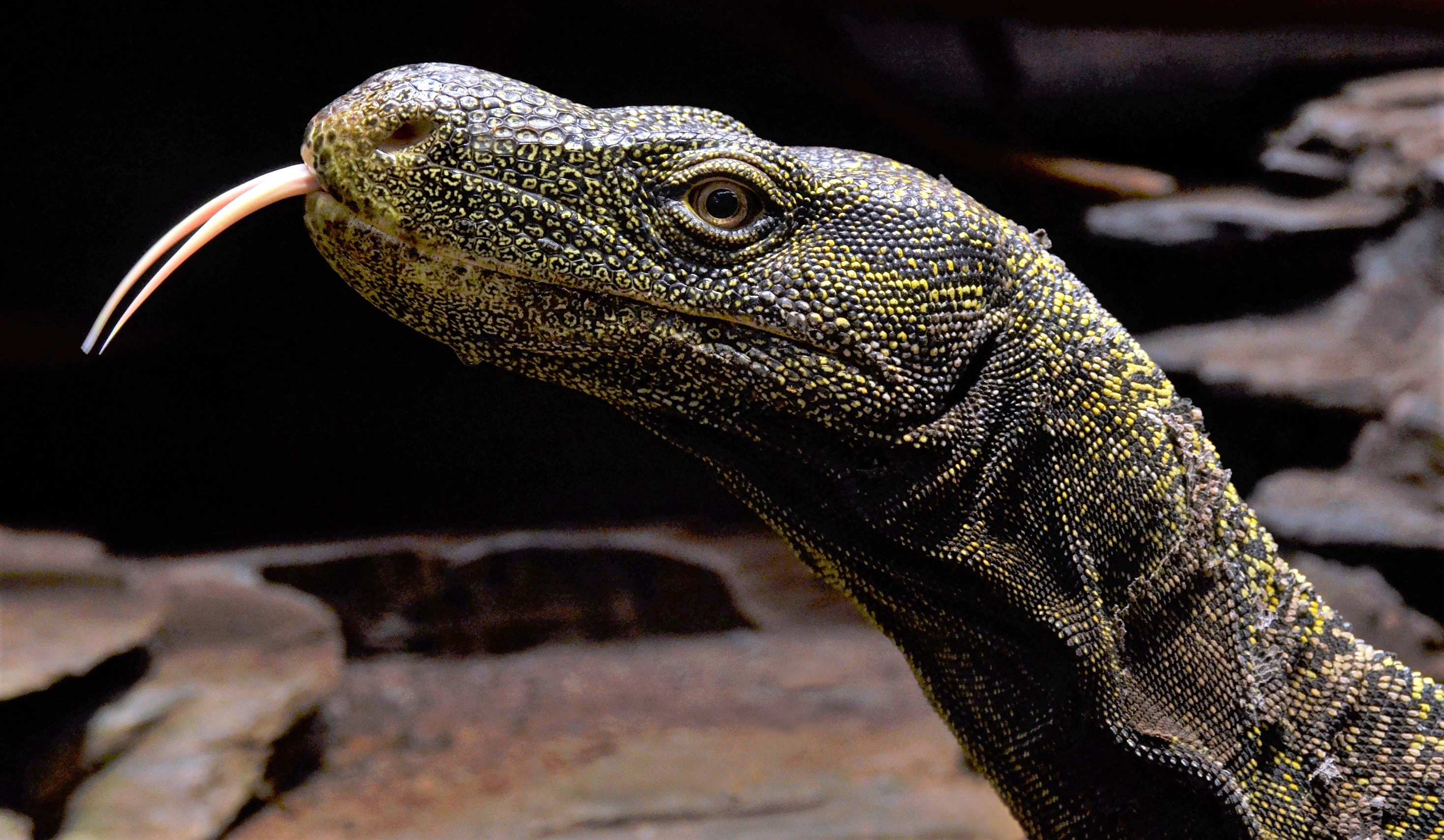 Crocodile monitor ( Varanus Salvadorii ) in Cologne Zoo.